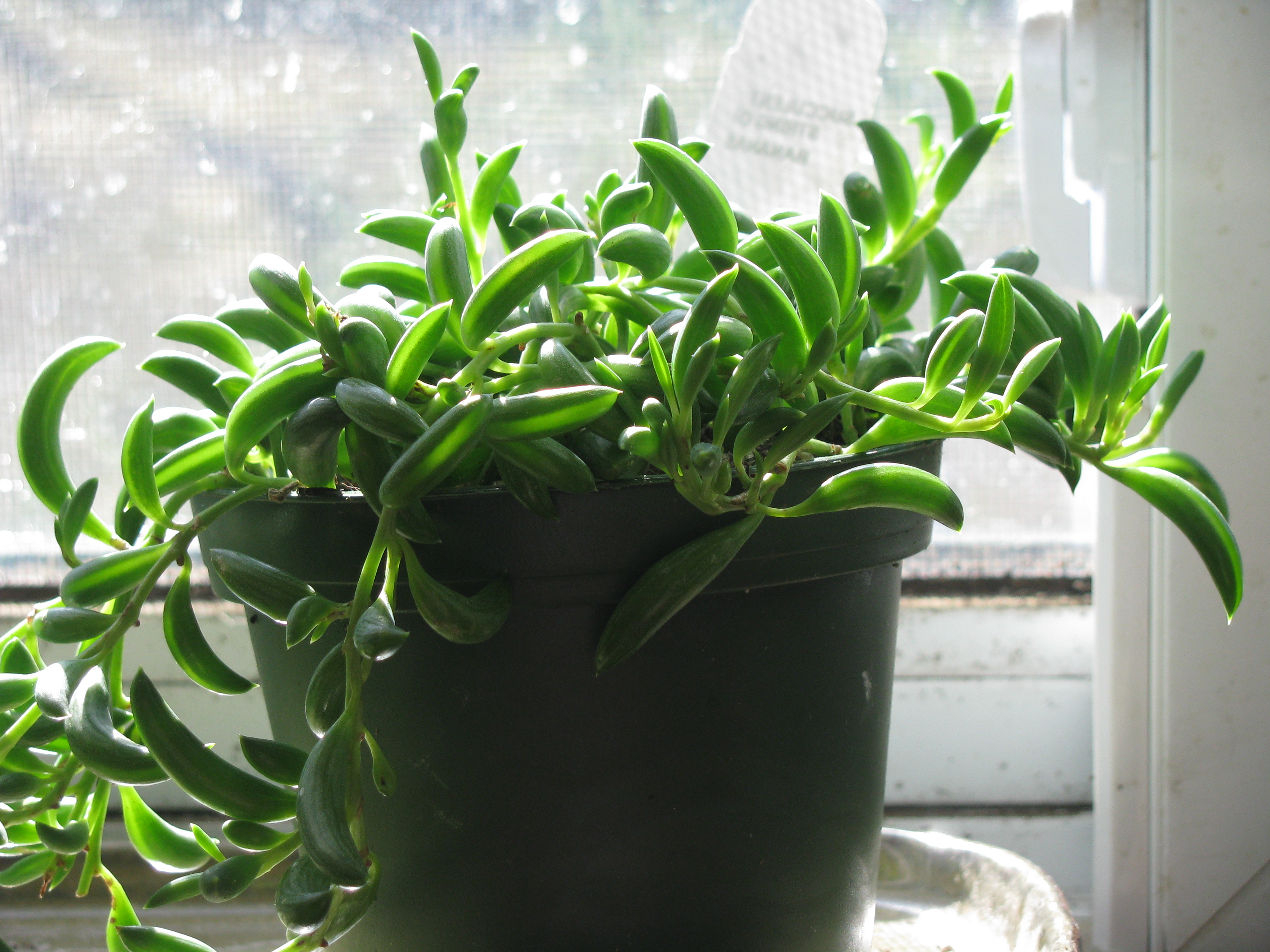 Senecio radicans